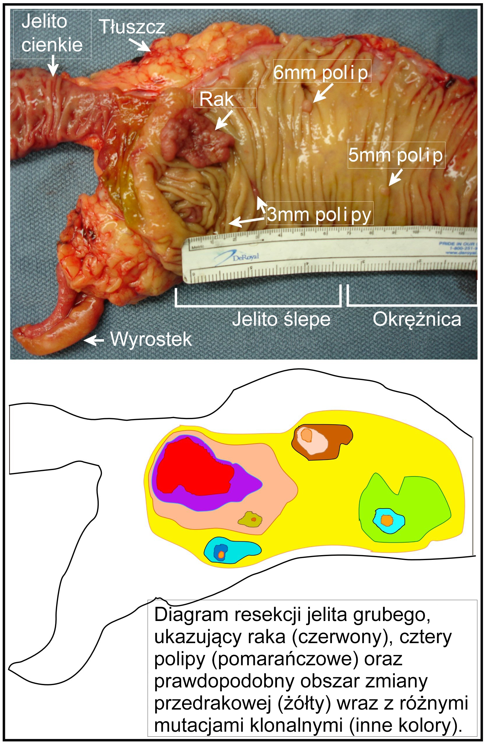 Longitudinally opened freshly resected colon segment showing a cancer and four polyps. Plus a schematic diagram indicating a likely field defect (a region of tissue that precedes and predisposes to the development of cancer) in this colon segment. The diagram indicates sub-clones and sub-sub-clones that were precursors to the tumors.